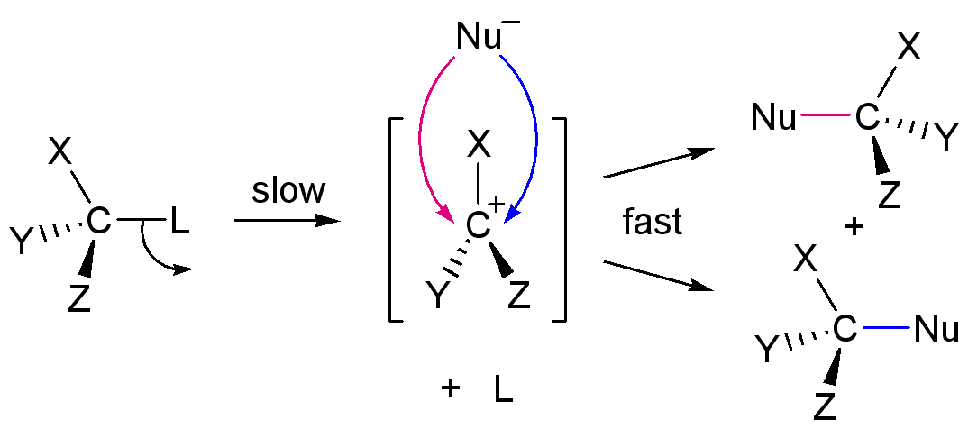 SN1 reaction mechanism.